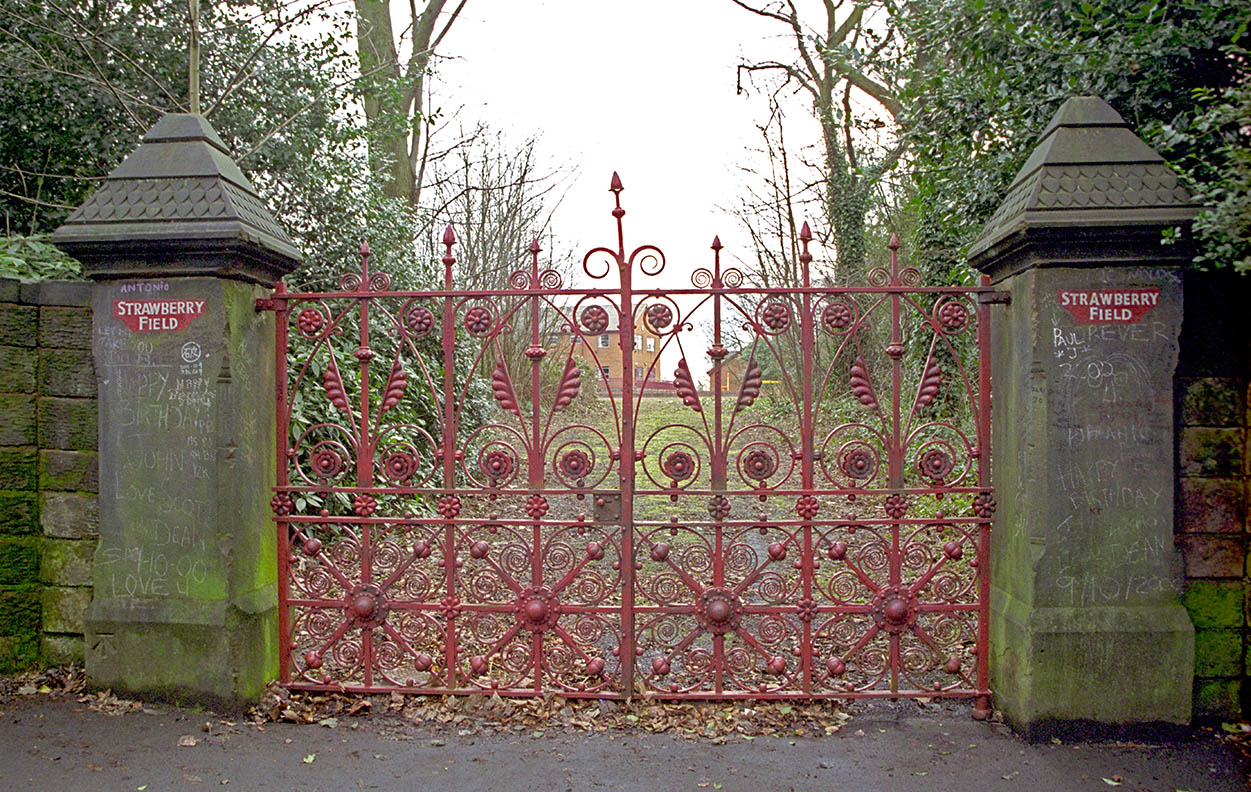 Strawberry field gate